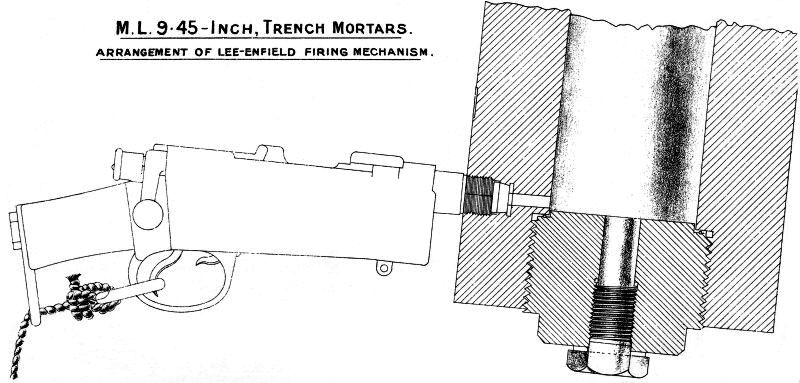 Diagram of Lee-Enfield bolt mechanism for firing British 9.45 inch Trench Mortar, 1918.